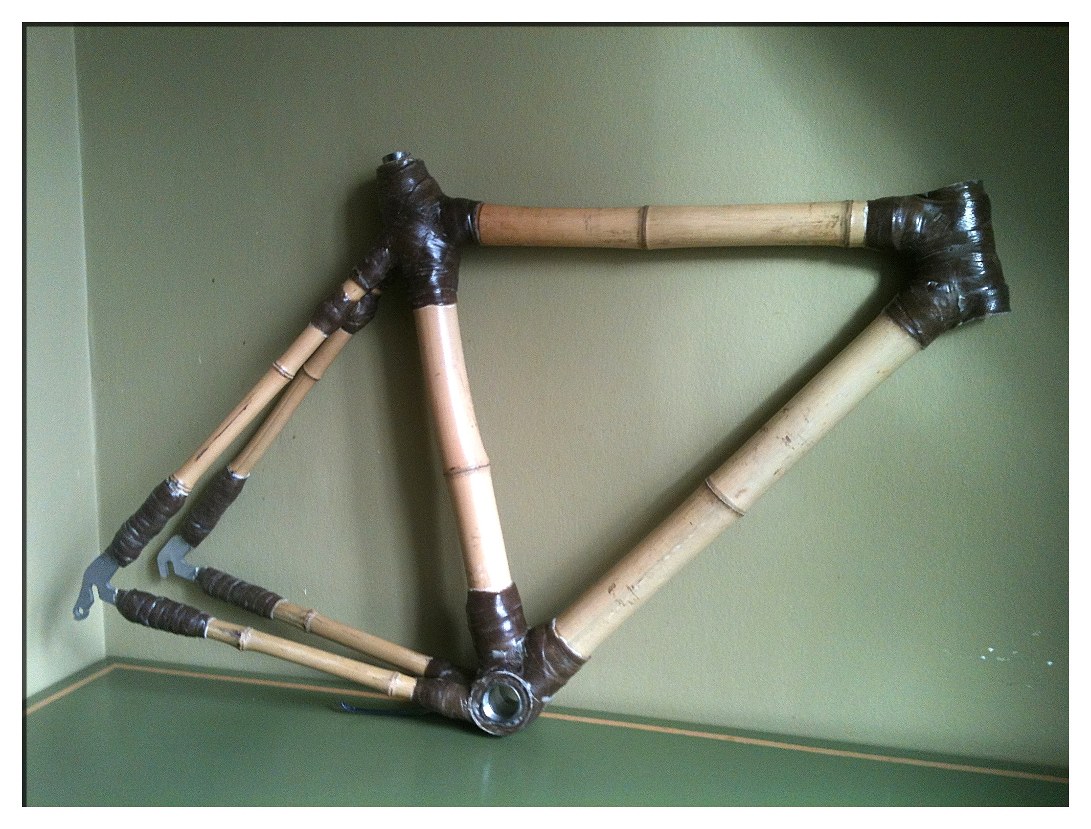 Bamboo bicycle Frame at workshop in England.